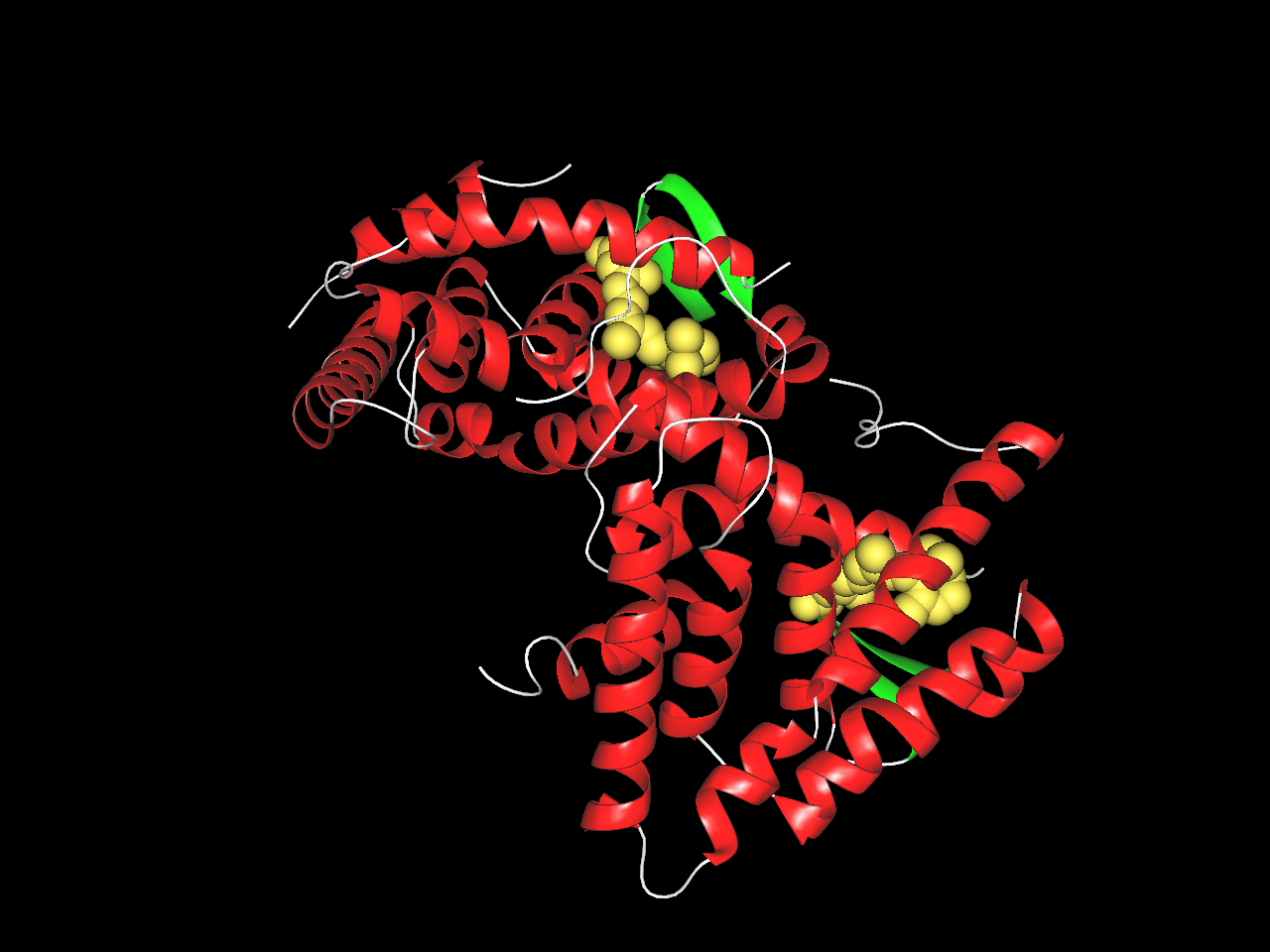 Crystal structure of the human RXRalpha ligand-binding domain bound to its natural ligand: 9-cis retinoic acid.